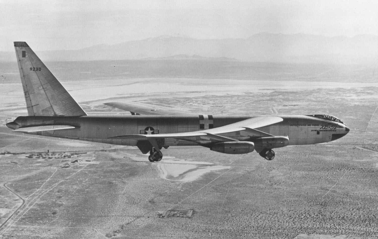 Boeing XB-52 in flight